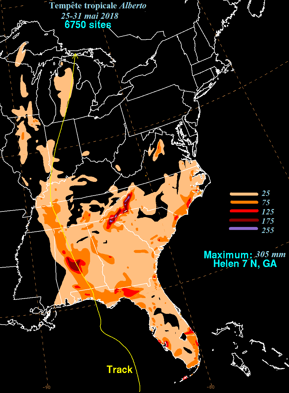 Total rainfall with Tropical Storm Alberto (2018) over the United States.